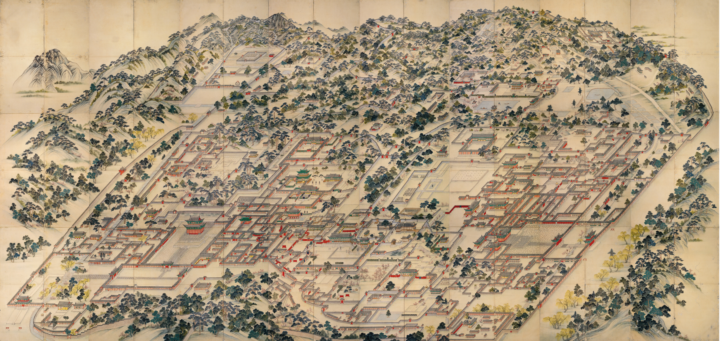 Painting of Eastern Palaces. Painting depicting the layout of Changdeok and Changgyeong Palaces (Donggwol-do). 1828-30. Sixteen fold-screen, colors on silk ; 274 x 578.2 cm. Dong-A University Museum, Busan.